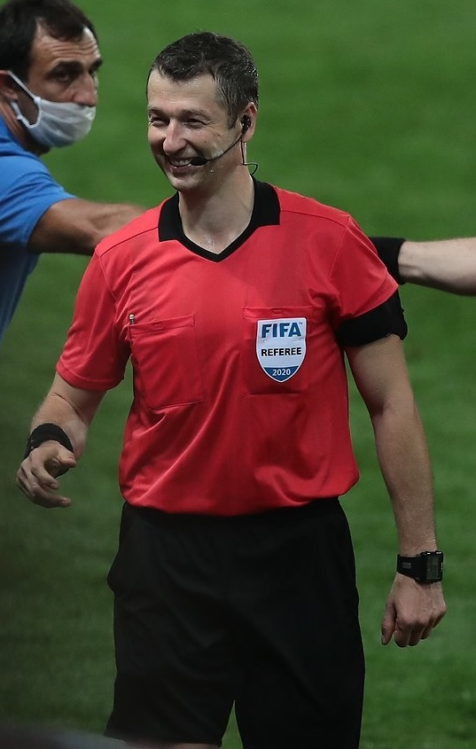 Aleksei Matyunin refereeing a game between FC Lokomotiv Moscow and PFC Sochi.